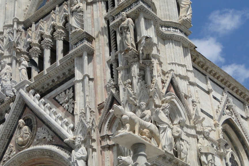 Siena Cathedral